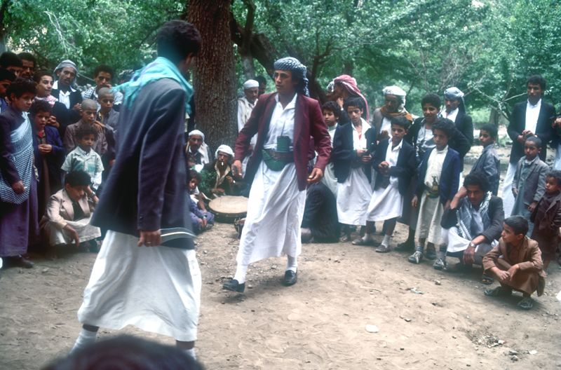 To celebrate a marriage, men dance with jambias drawn